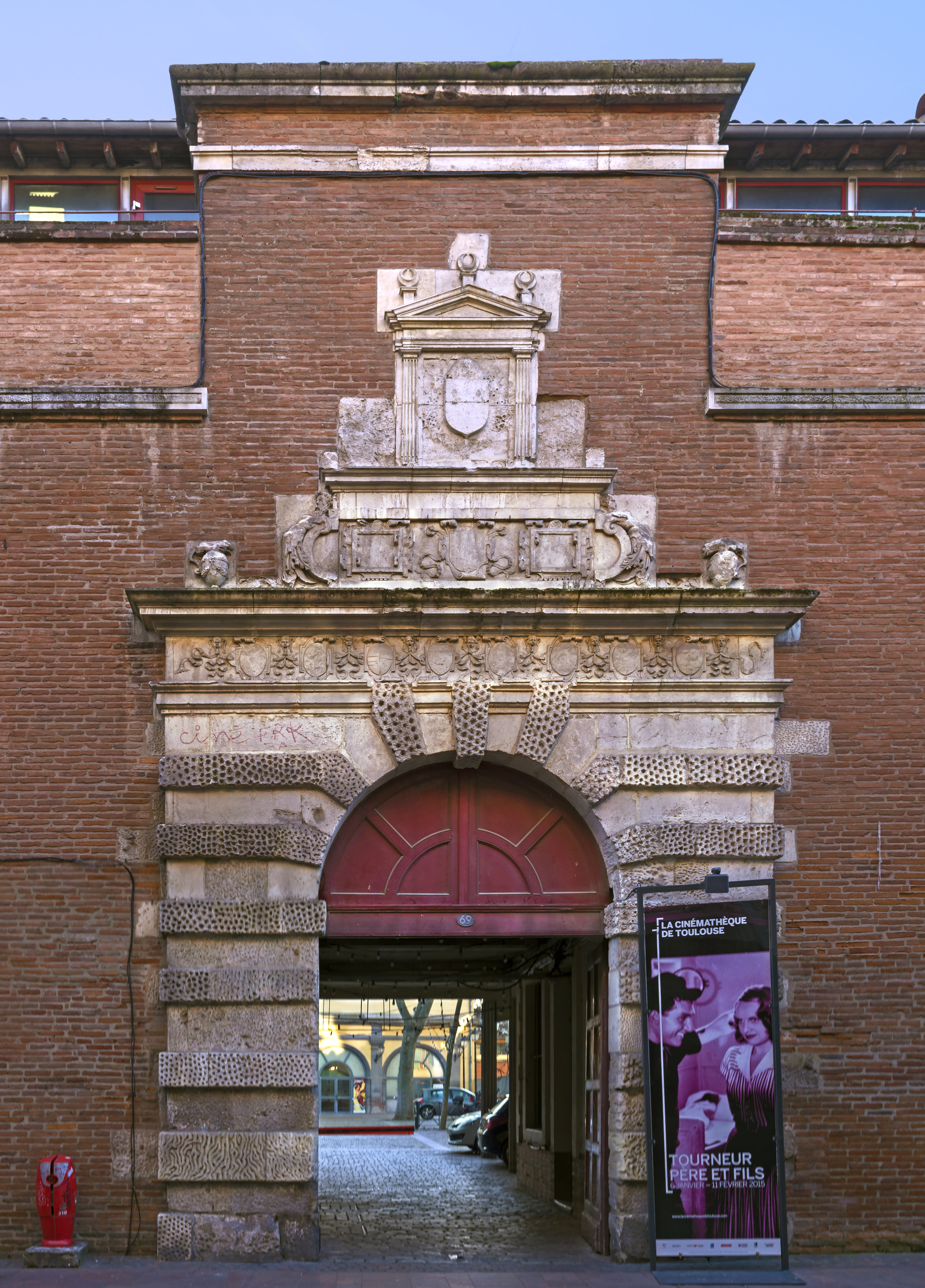 Gate of the Old little Seminar Esquile called Porte de l'Esquile: by Nicolas Bachelier. Currently door of the Cinémathèque de Toulouse. Date Building : 16th century